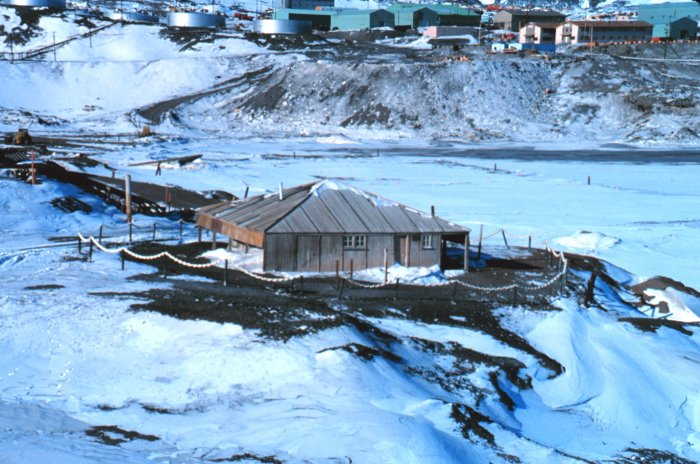 Scott's Basislager (NOAA) Quelle: Lizenz: PD Beschreibung: Robert Falcon Scott's Hut Point Shelter at McMurdo Station Image ID: corp1546, NOAA Corps Collection Location: Antarctica Photo Date: November 1978 Photographer: Commander John Bortniak, NOAA Corps